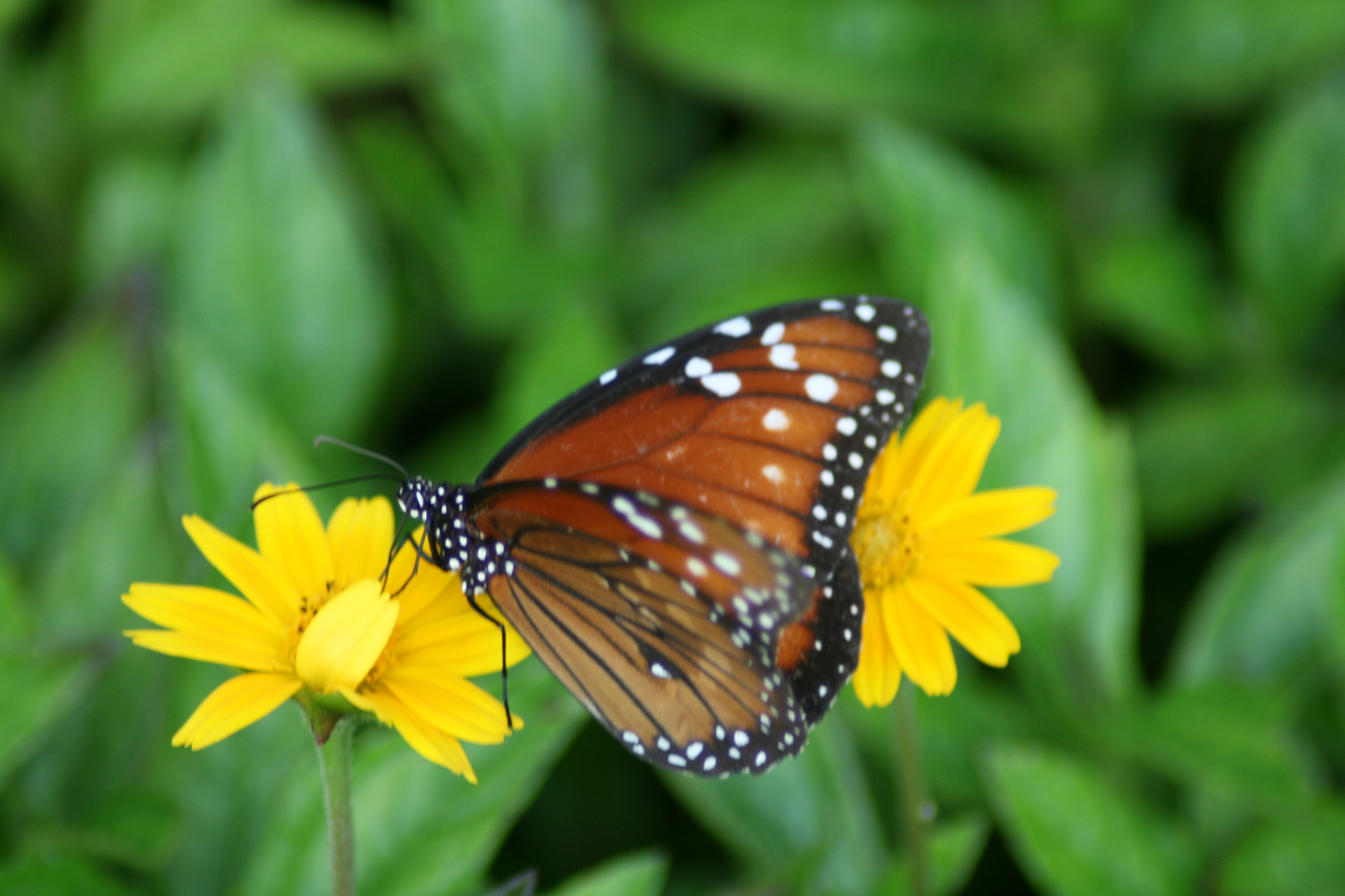 Danaus eresimus. Picture taken in loxahatchee national wildlife refuge, Florida.